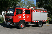 AHBVPA-VUCI 01